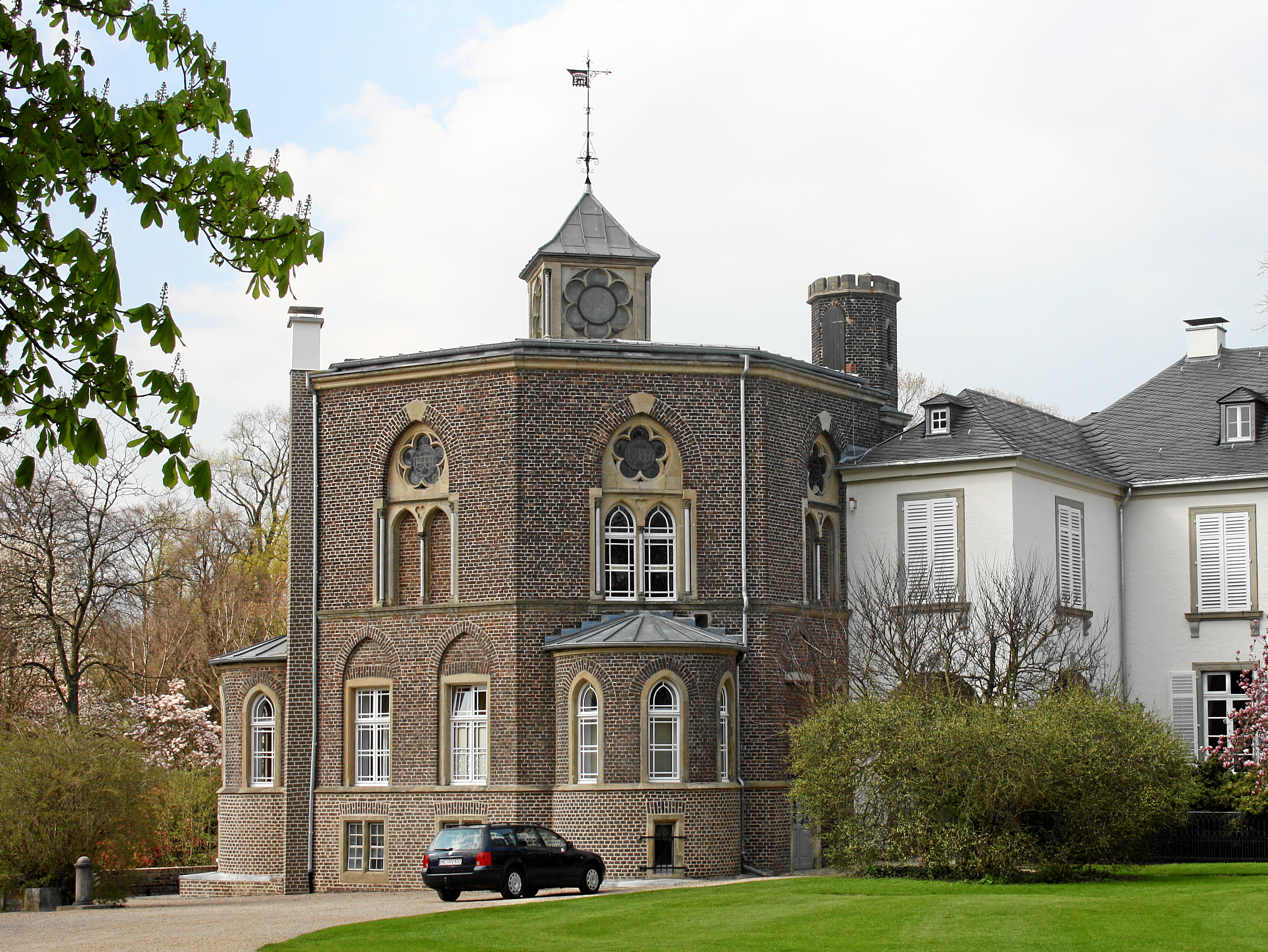 Düsseldorf, Germany. Castle Heltorf, library from South-East (19th century).